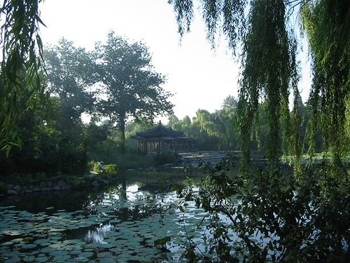 Tsinghua campus scenery, Tsinghua University, Bejing, China.